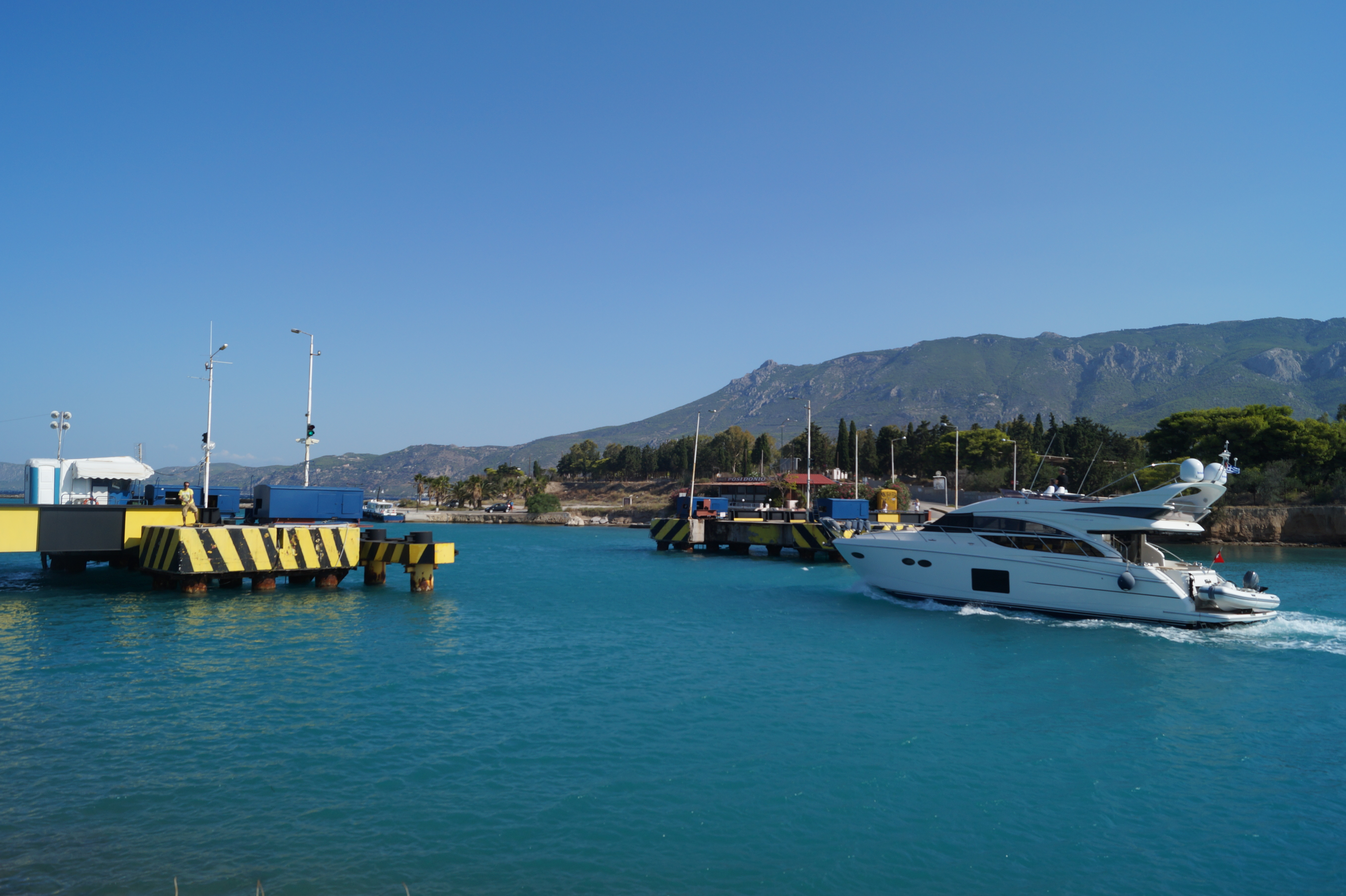 Poseidonia, Corinthia, Greece: Ship passes through Poseidonia bridge.